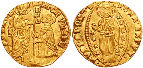 Italy, Papal States. Roman Senate. 13th-14th century. AV Ducat (20mm, 3.51 g, 12h). S PETRVS• left; SEnATOR VRBIS• up and right, St. Peter standing right, presenting banner to kneeling Senator; rosette below staff of banner •ROML•CLPVT• • MVDI•S P Q R(lateral Christogram and facing head of Christ), Christ standing facing, raising hand in benediction and holding Gospels, surrounded by elliptical halo containing nine stars. CNI XV pg. 175, 615; Muntoni IV pg. 199, 131; Berman 151.